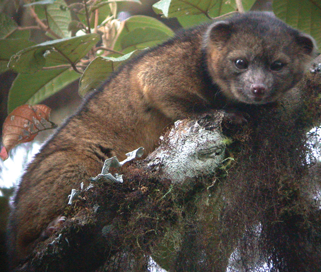 Photograph of Bassaricyon neblina "Olinguito" taken in the wild at Tandayapa Bird Lodge, Ecuador.